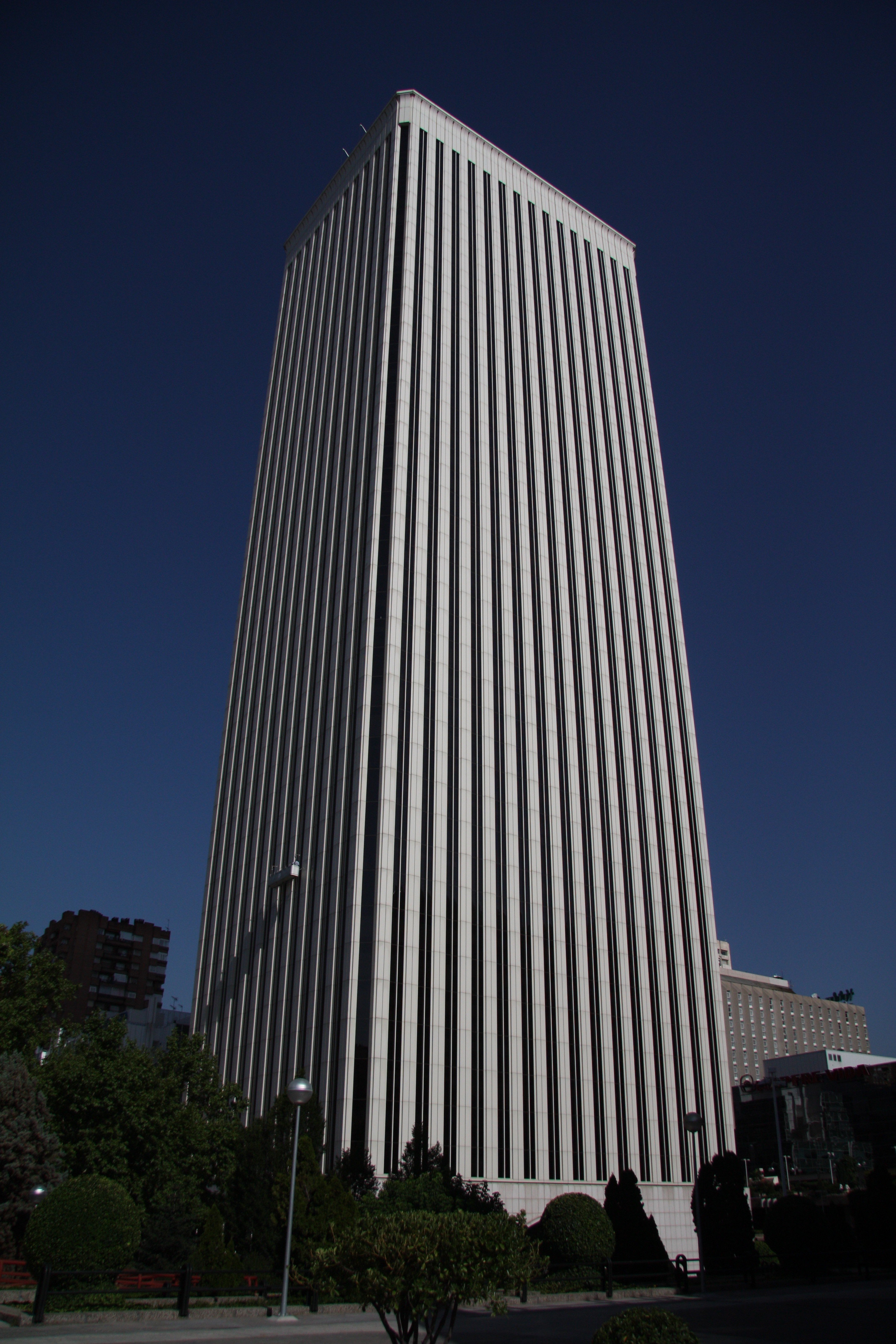 Torre Picasso (Madrid, Spain)